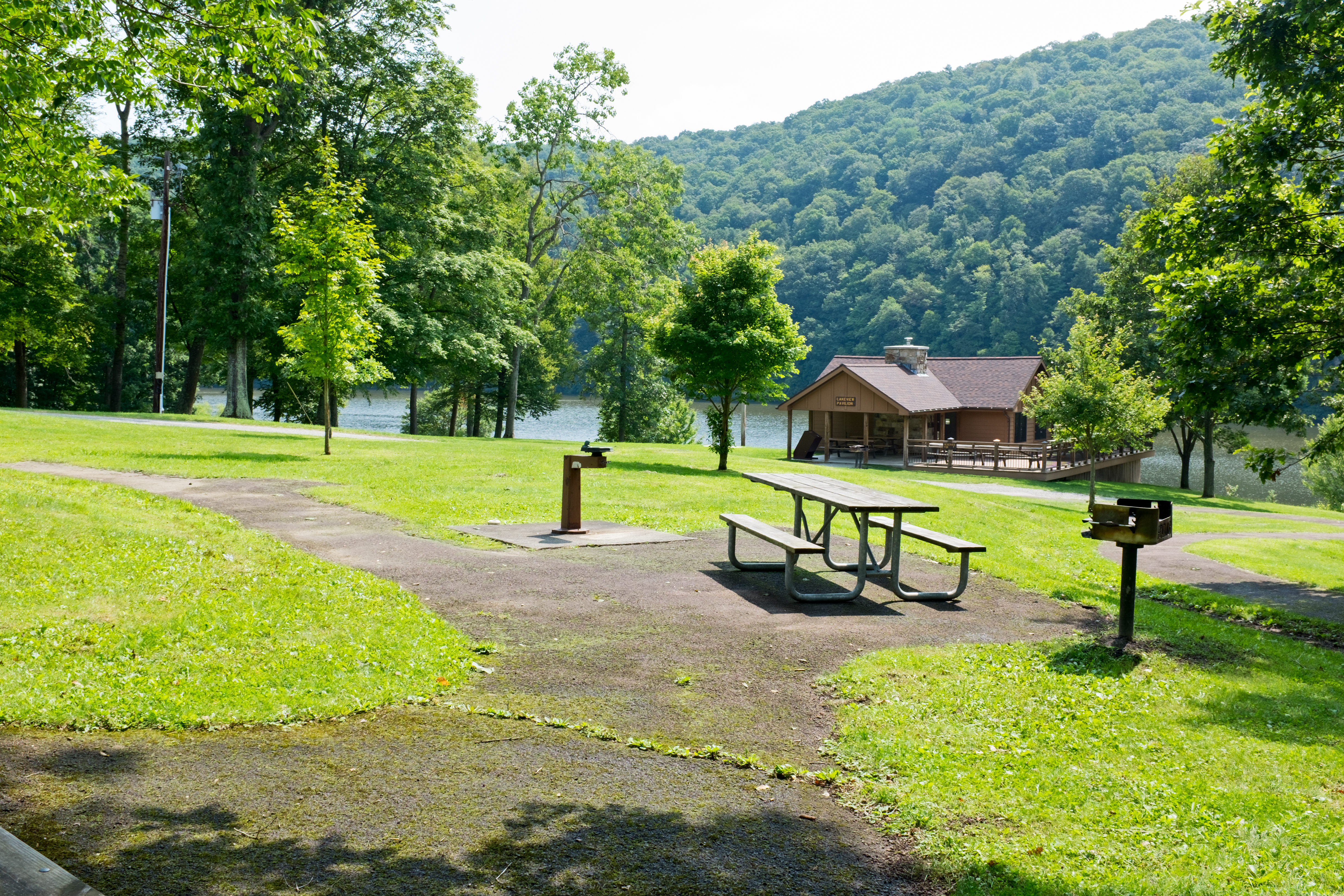 Laurel Hill State Park, with lake in background pavilion, picnic area also.